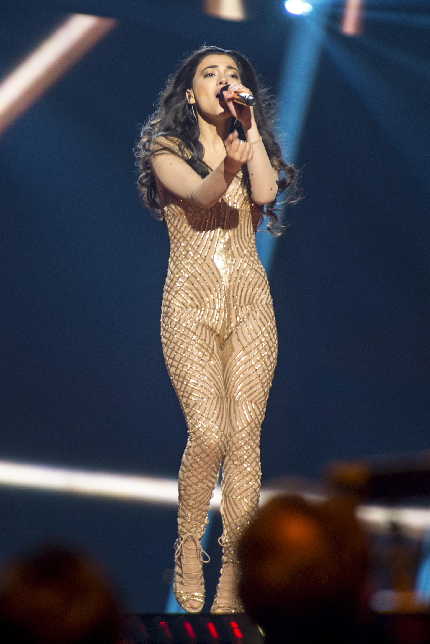 Samra representing Azerbaijan with the song "Miracle" during a rehearsal before the first semi final of the Eurovision Song Contest 2016 in Stockholm. (Help translate this text)